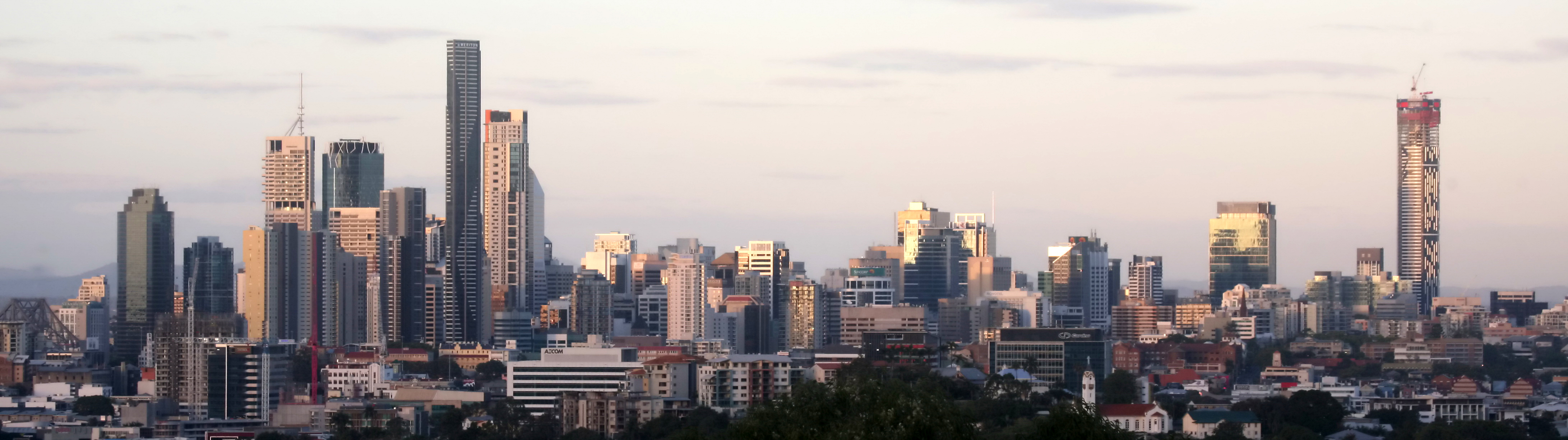 Brisbane skyline in May 2013